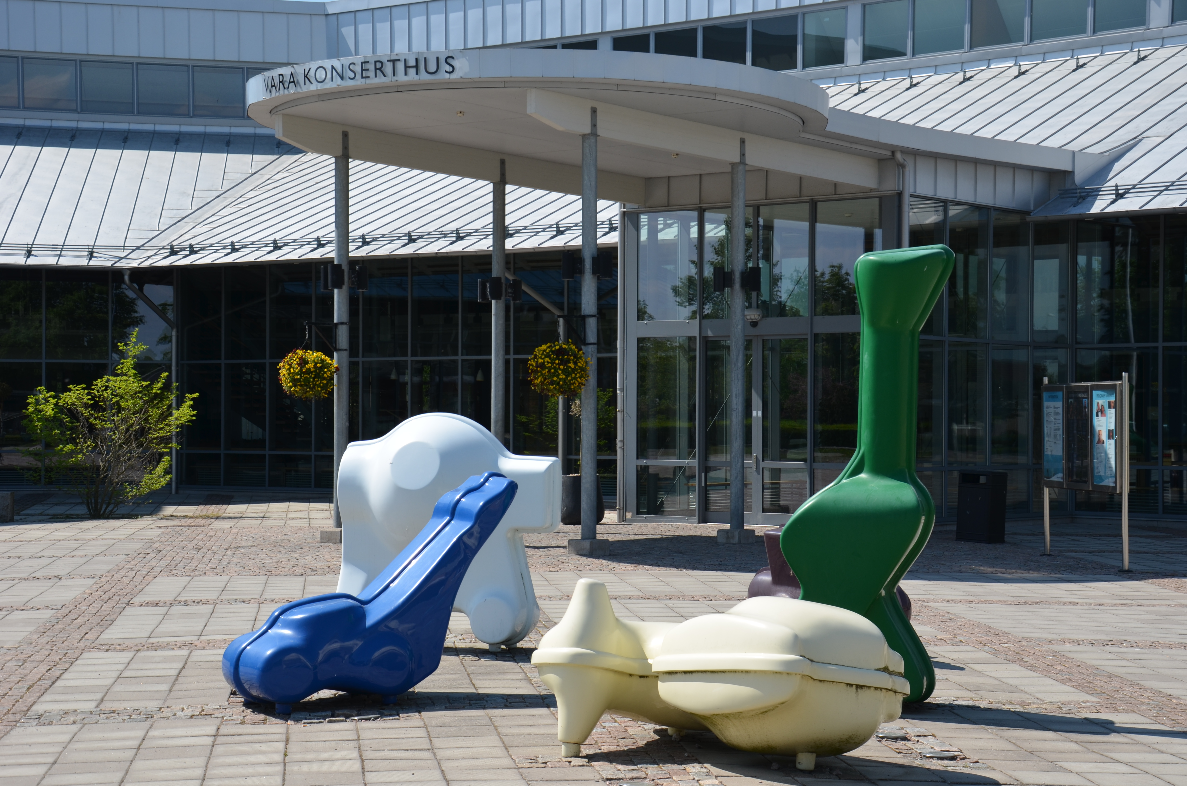 Sculpture On Tour, glassfibre plastic, 2002, by Inges Idee, outside Vara Concert Hall